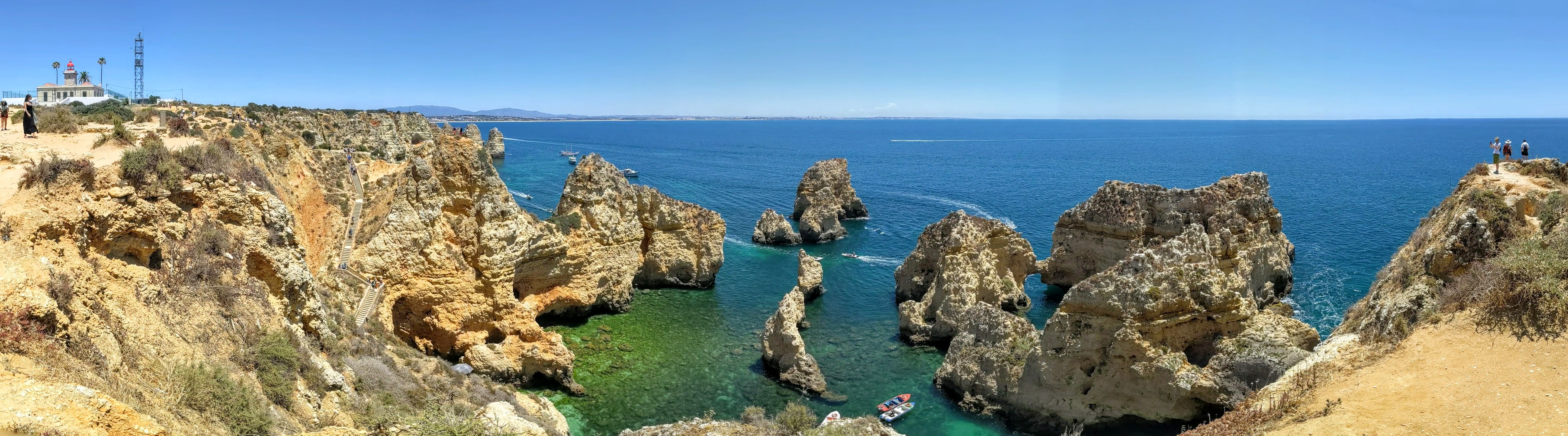 Ponta da Piadade panoramic view, with the Ponta da Piedade Lighthouse at the left